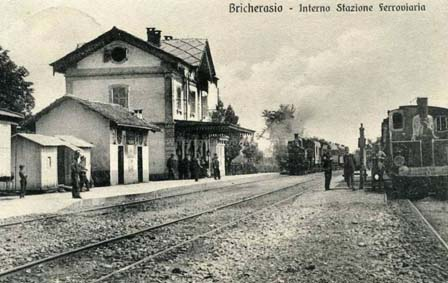 Bricherasio, train station